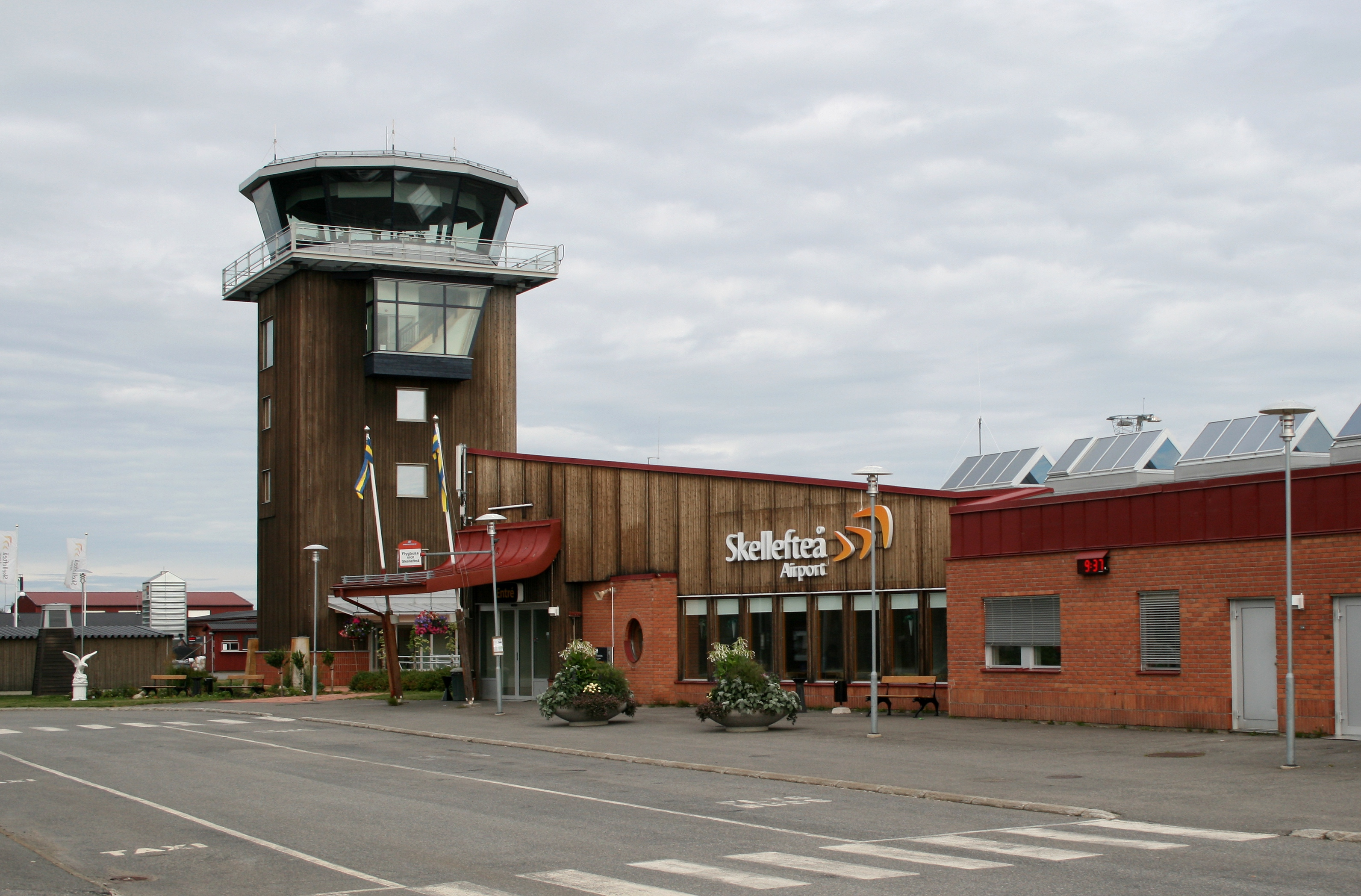 Terminal and tower of Skellefteå Airport.